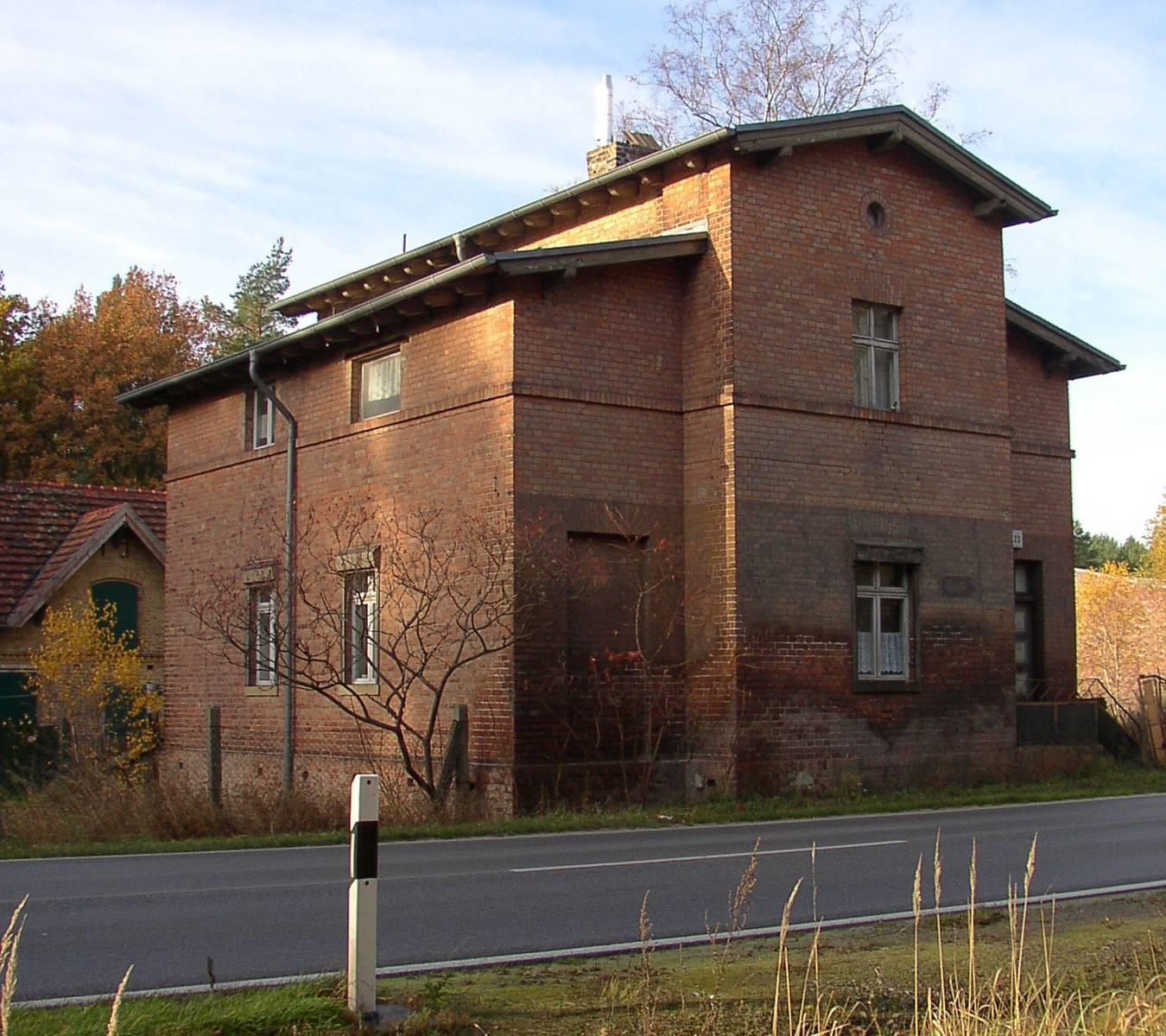 Former toll house in Nassenheide (municipality Löwenberger Land) in Brandenburg, Germany